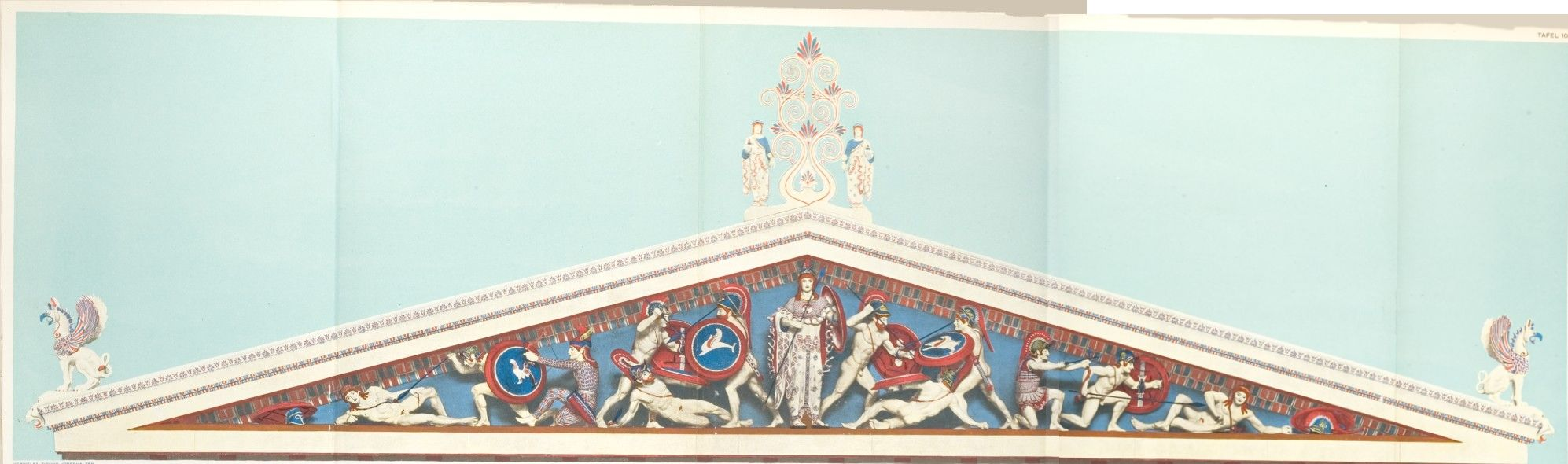 Colourful Reconstruction of the archaic Western pediment of the Temple of Aphaia at Aegina